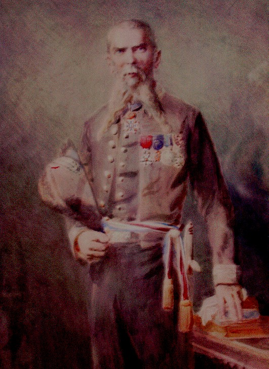 Félix Leclerc de Pulligny Normandy Famille Le Clerc